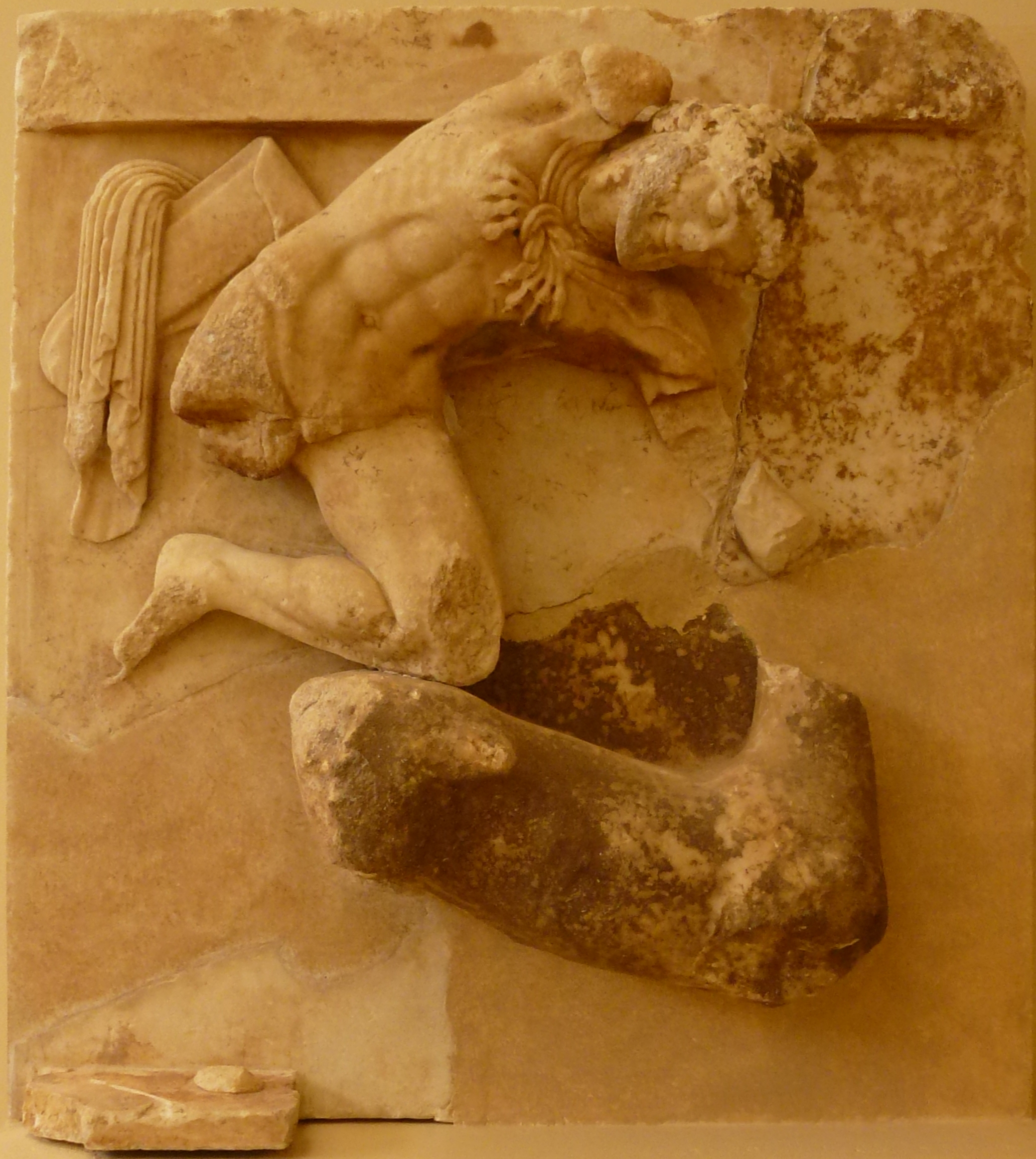 Heracles and the Ceryeian hind (Metopes from the Athenian Tresury in Delphi)